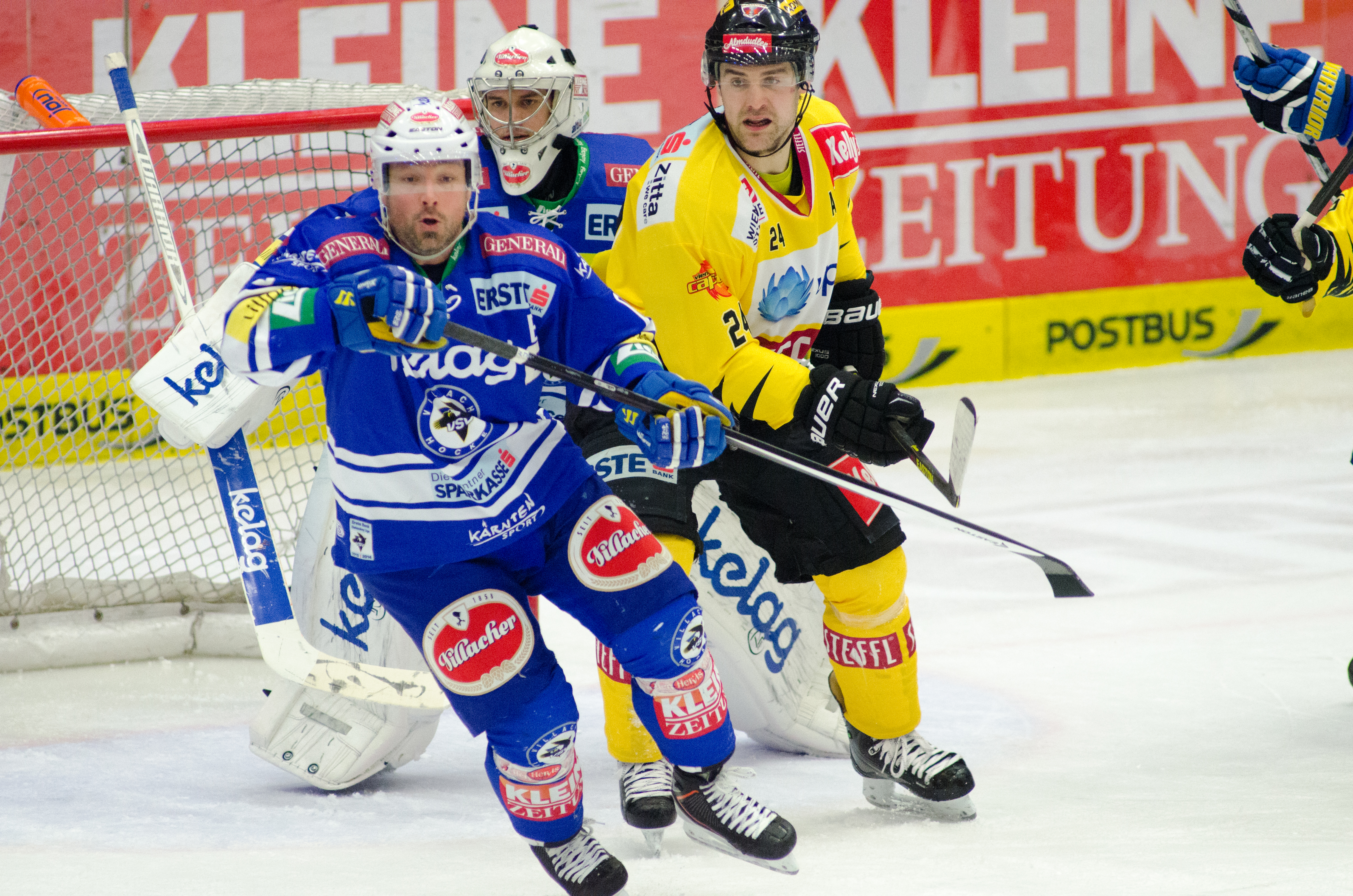 08.03.2014,Stadthalle Villach,Villach, AUT,Play Off Viertelfinale, EC VSV vs. UPC Vienna Capitals, im Bild ///, stewo Pictures © 2014, PhotoCredit: stewo/ Stephan Woldron